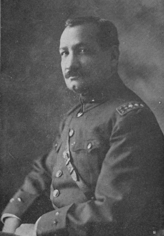 Portrait of Guatemalan President José María Orellana in 1925